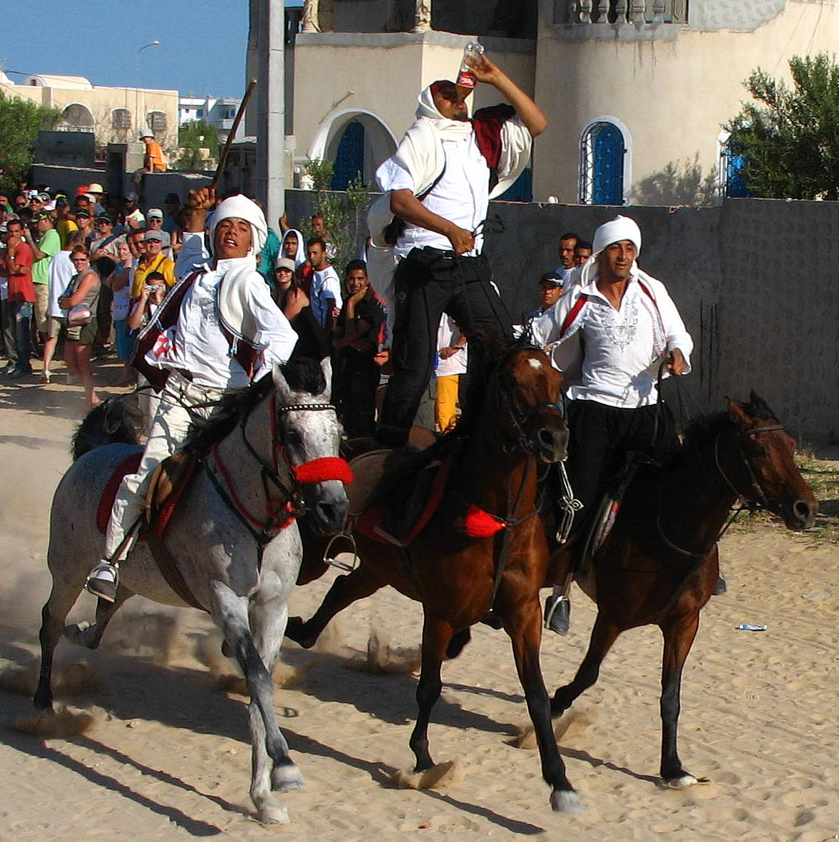 Fantasia in Midoun, Djerba (Tunisia).